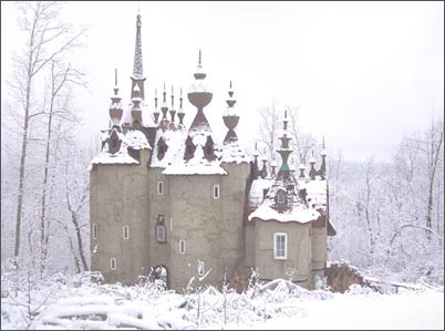 Photo of Castle designed and built by photographer